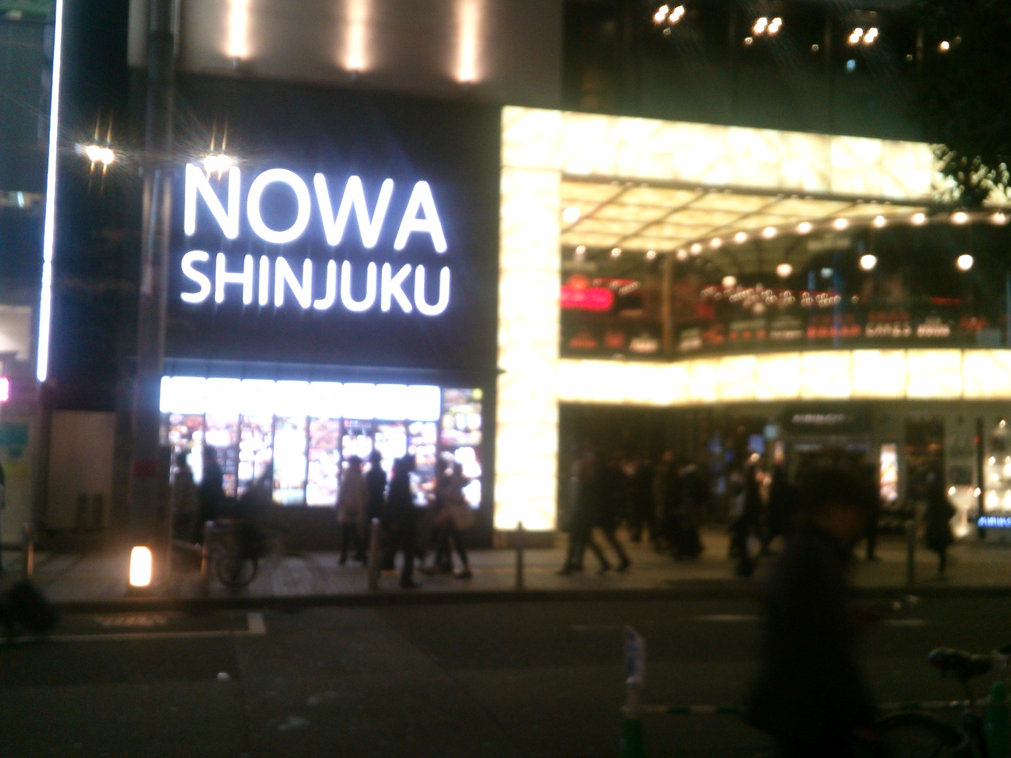 新宿NOWAビル